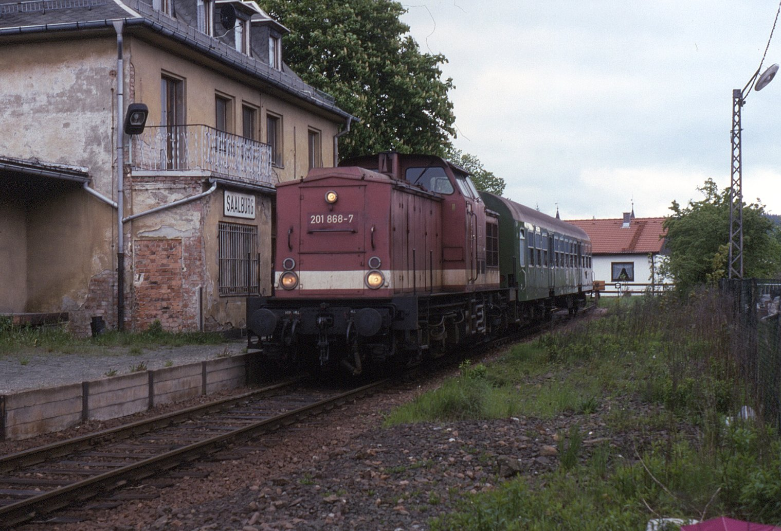 Rural branch lines in the former East Germany were always a favourite of mine. So many were hauled by single cabbed locos classes 201, 202 and 204 often with just one or two coaches. In May 1995 I paid a visit with Mark Herriott to cover many such lines in the area. We covered this branch to Saalburg and back during the lunchtime period. Inevitably the train was packed with school children and students who traditionally finish their day at this time. 201.868 is seen on train 8659, 13:00 Saalburg (Saale) to Schleiz on 17 May 1995. Again, this line is no longer in operation.